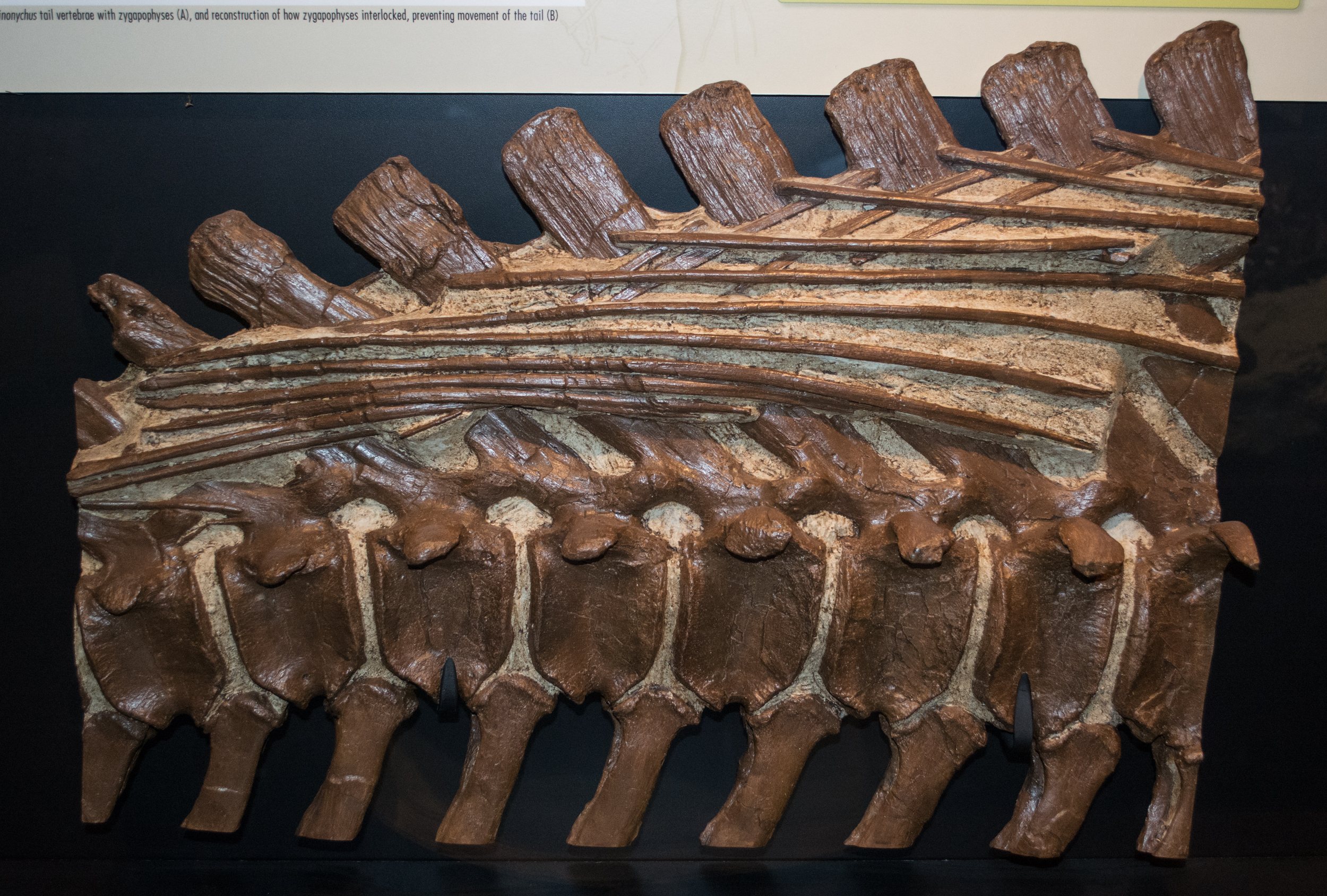 Brachylophosaurus tail with tendons - Museum of the Rockies